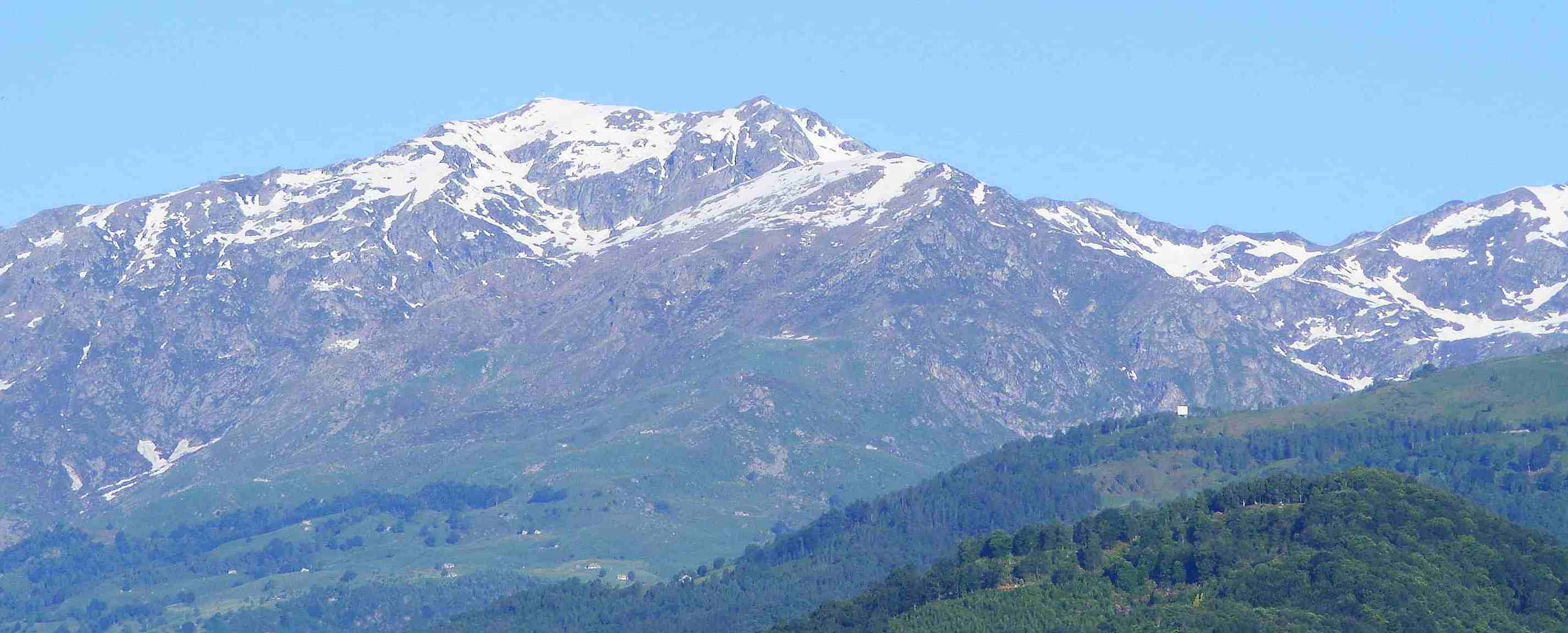 Mombarone from Pavignano (Biella, Italy); in primo piano il Bric Burcina